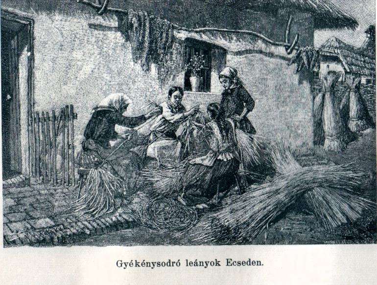 Girls making mat of frail in Ecsed, Hungary